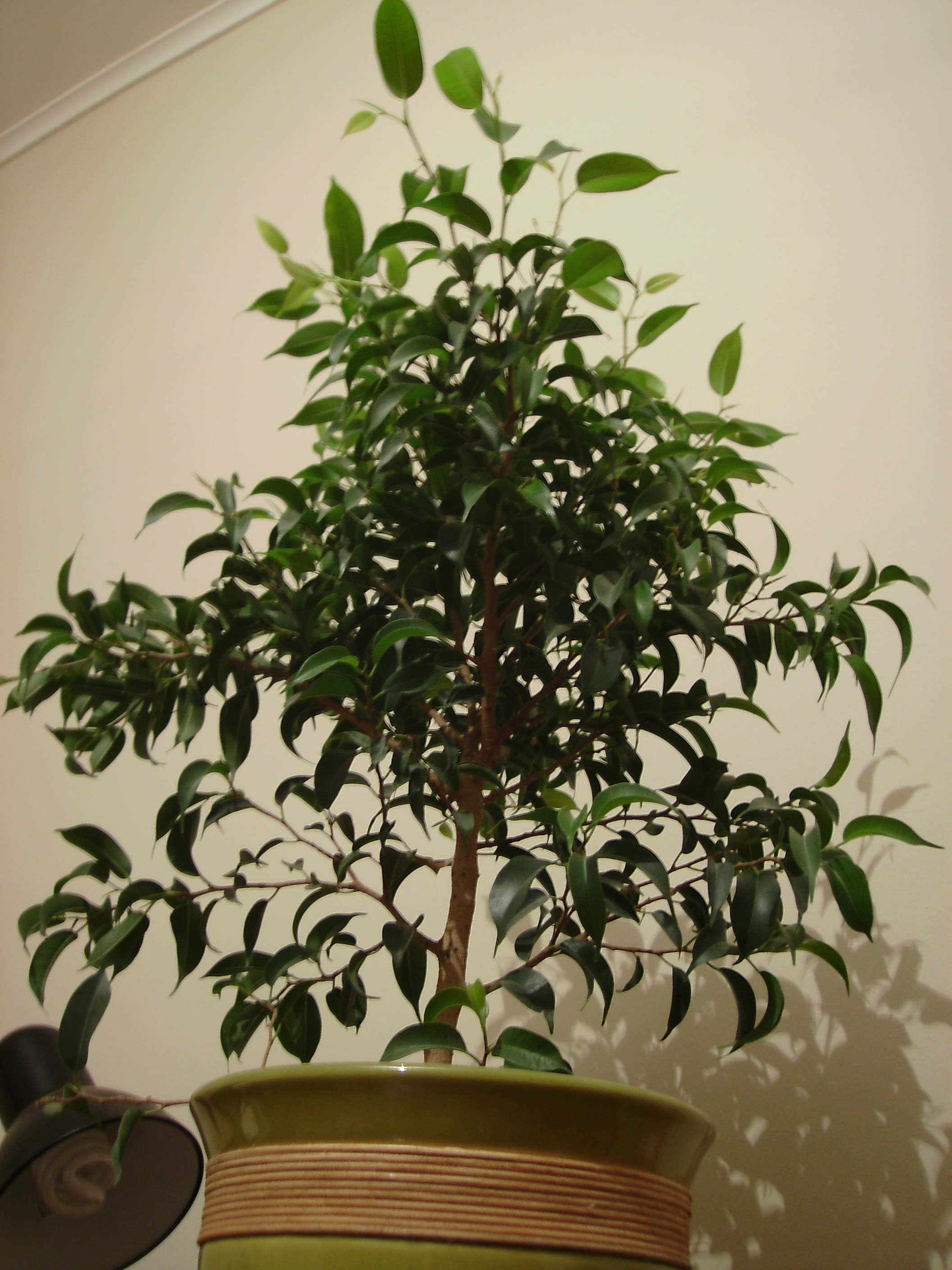 foto frontal de la planta en maceta